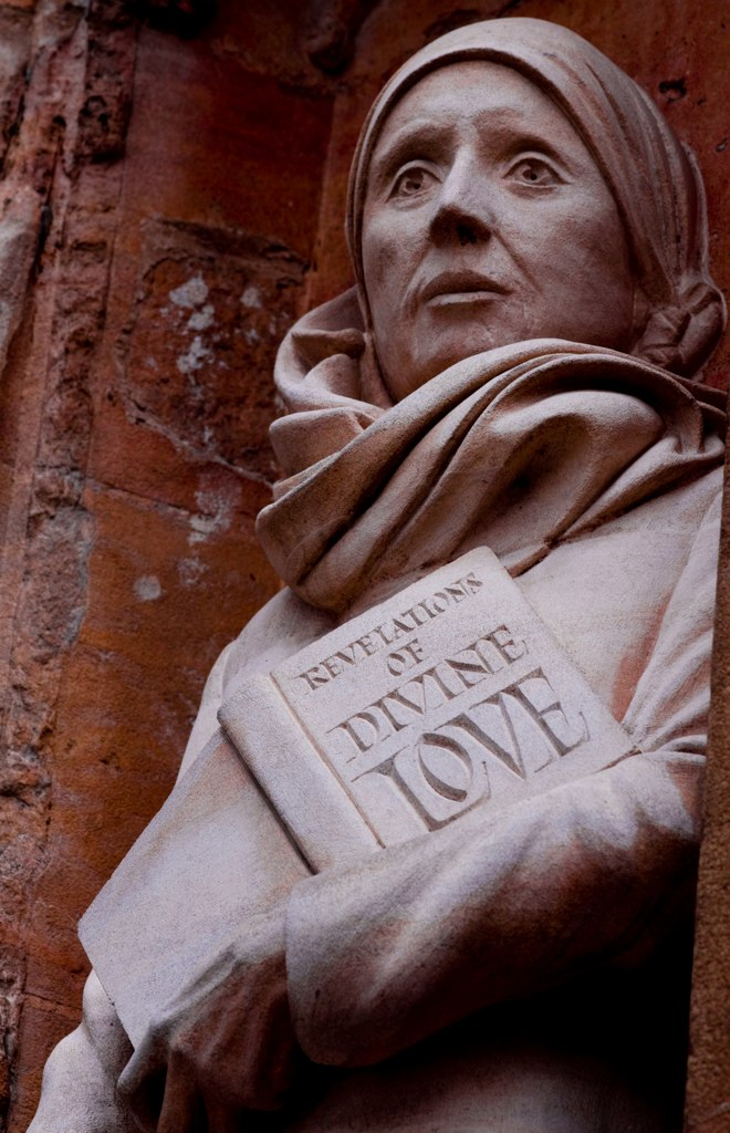 Statue of Julian of Norwich, Norwich Cathedral, by David Holgate FSDC